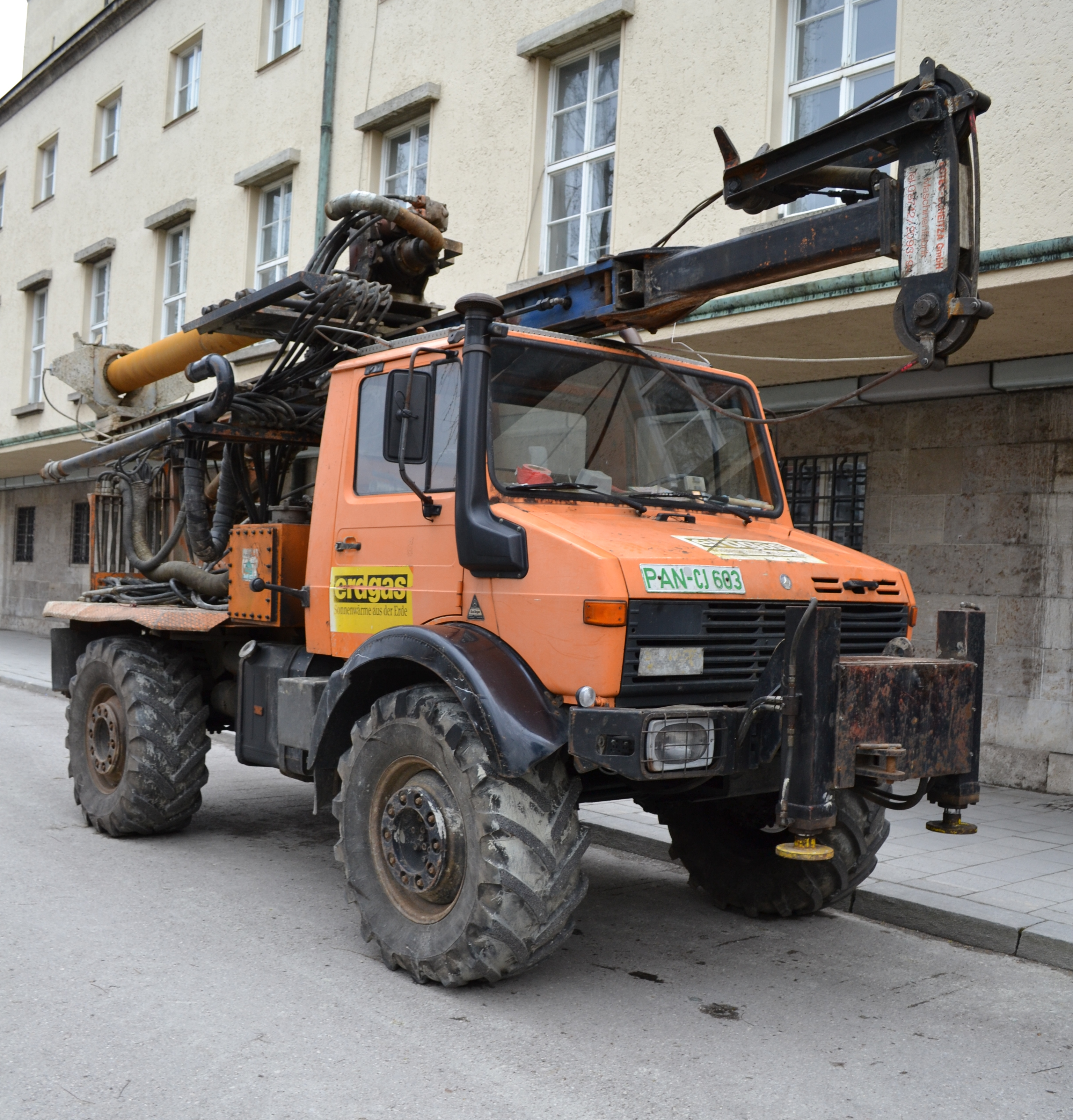 Unimog-based drilling machine.